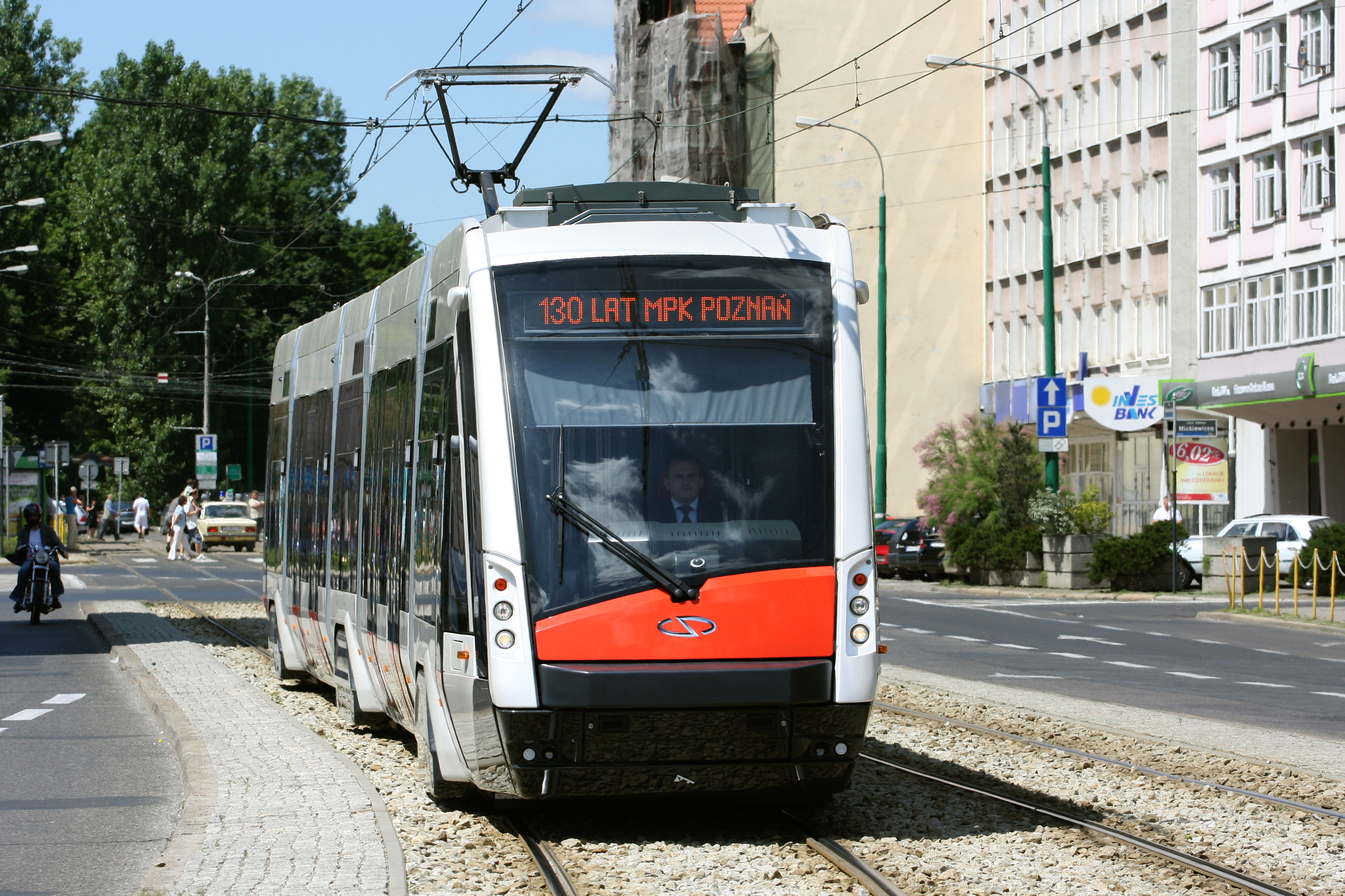 Solaris Tramino, 130th anniversary of public transport in Poznań, Poland.